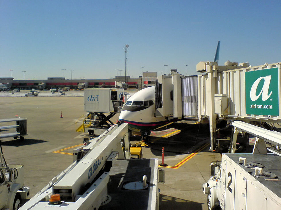 AirTran plane at the gate